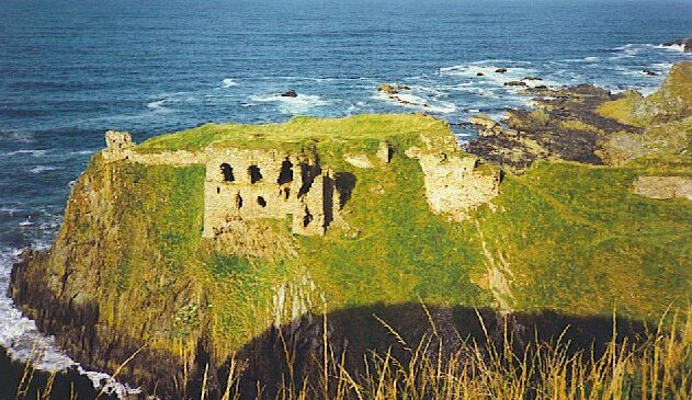 Findlater Castle, Portsoy, Banffshire. A precariously sited old clan home on the Moray Firth, Scotland.